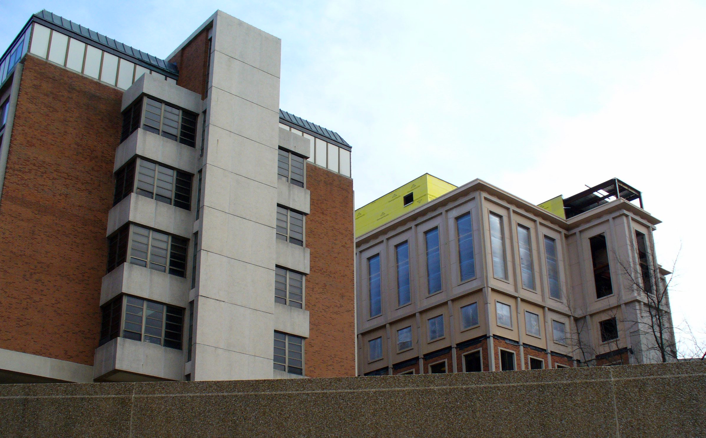 St. Mary's Hospital in Richmond, Virginia